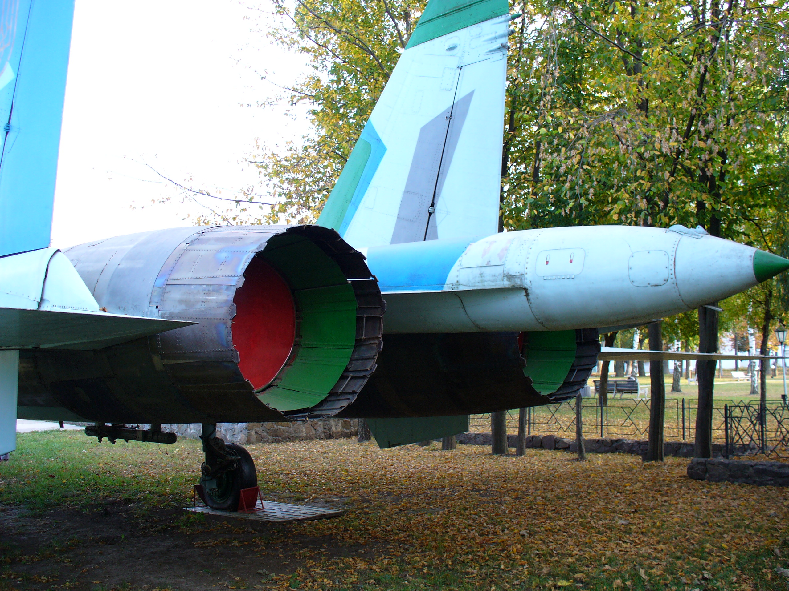 The Sukhoi Su-27 (NATO reporting name "Flanker"). Ukrainian Air Force Museum in Vinnitsa.